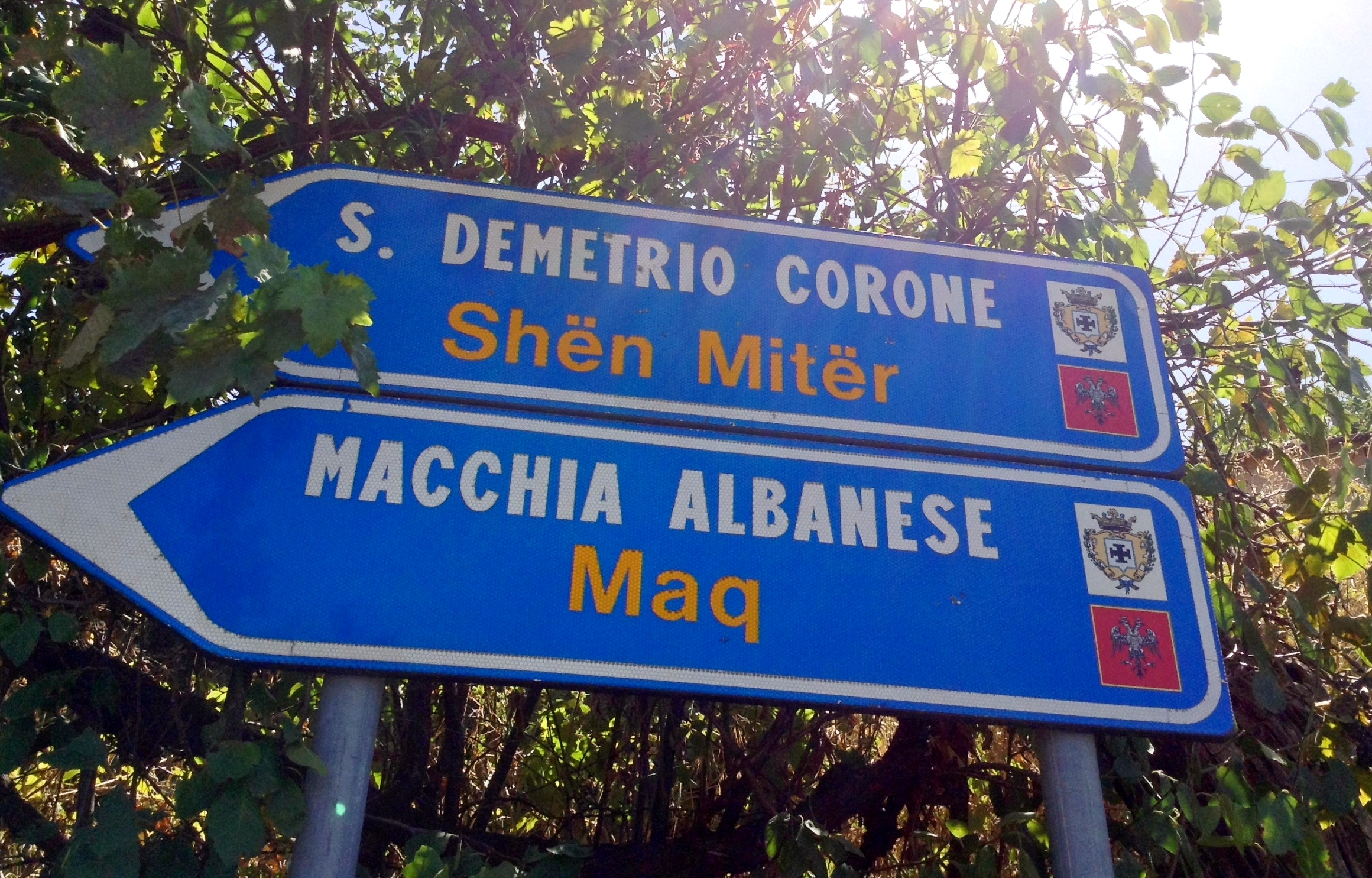 Bilingual street sign (Italian and Arbëresh)